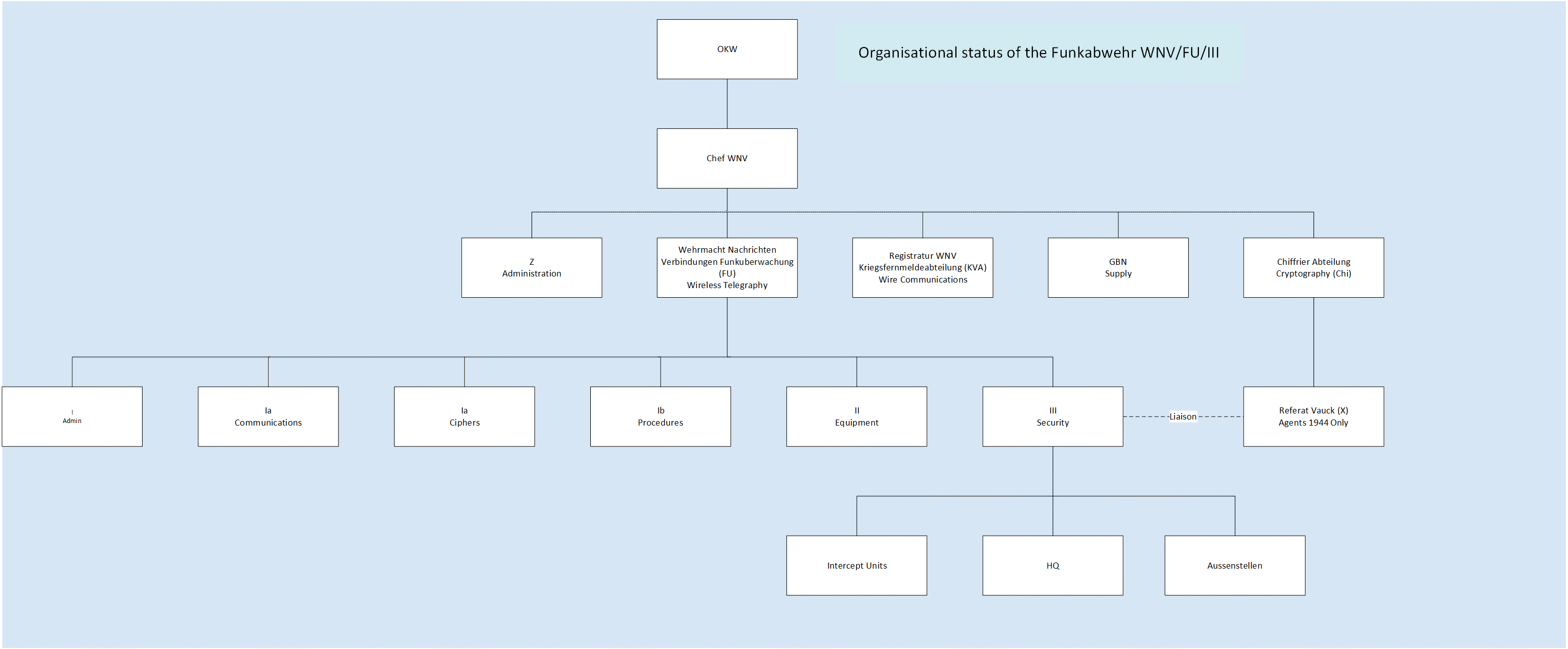 Organisation chart of the WNV/FU/III, the Funkabwehr or the Radio Defense Corps of the German Army during World War II